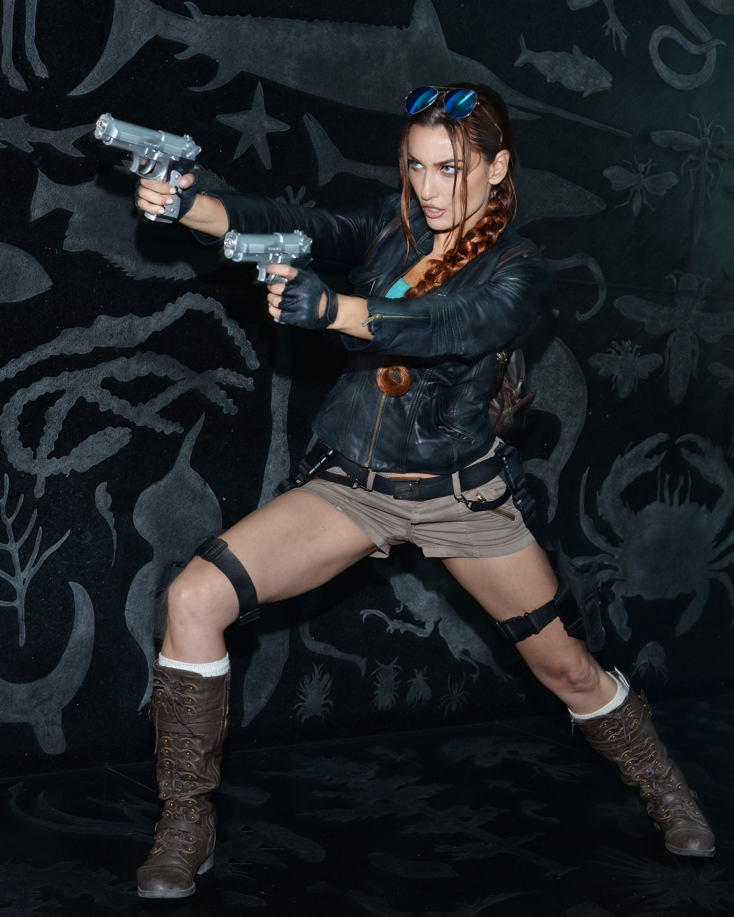 Tatiana DeKhtyar as Laura Croft at the E3 Expo in Los Angeles on June 14, 2016 - Photo by Glenn Francis of